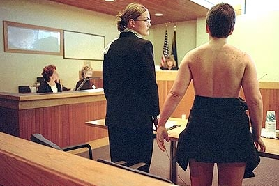 Terri Sue Webb addresses Judge naked in a Deschutes County courtroom on November 7, 2001.